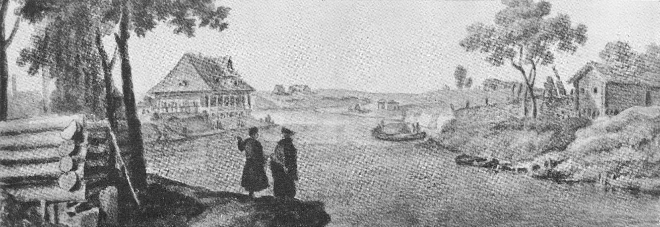 View of Dubroŭna